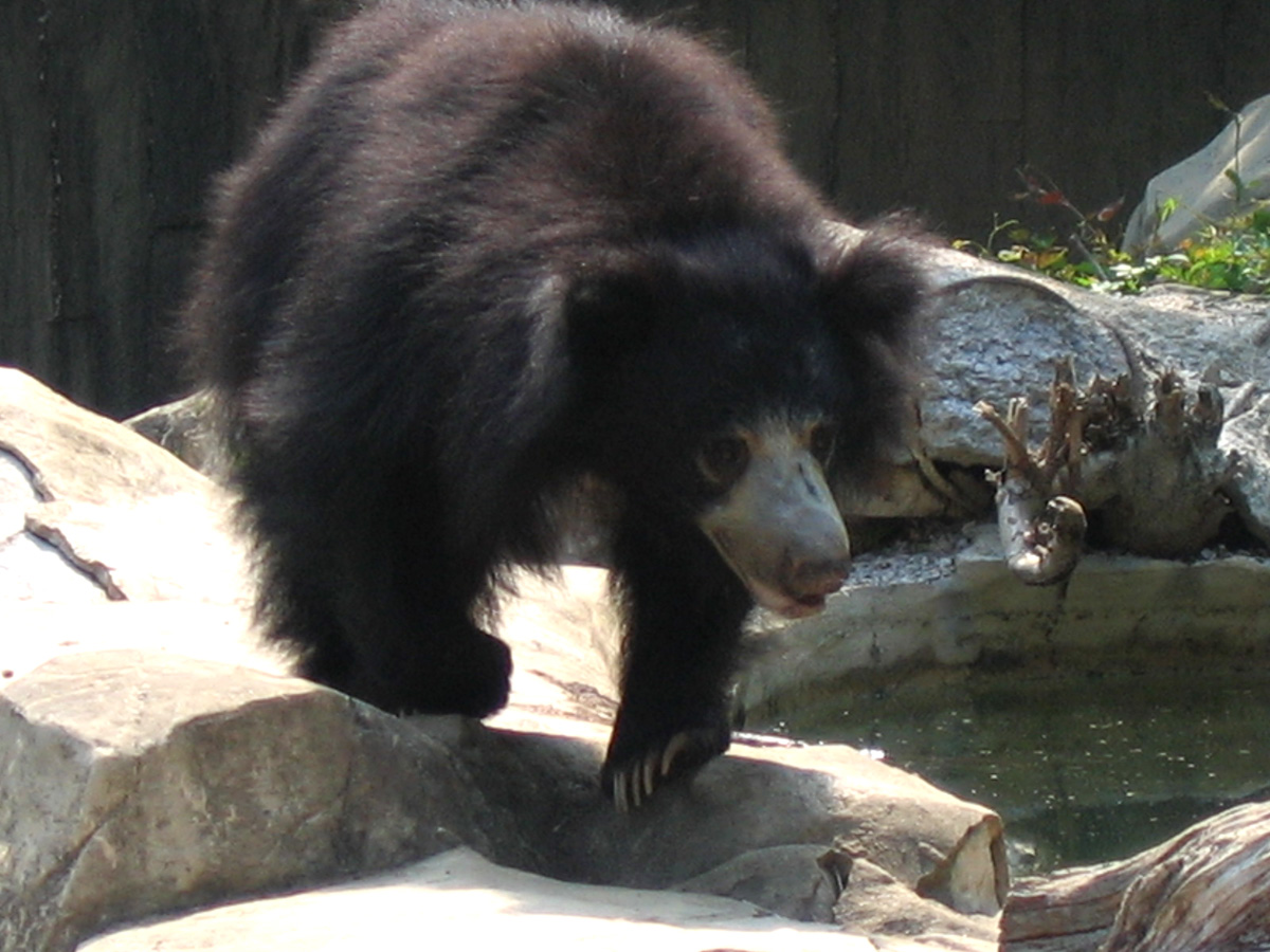 Sloth Bear (Melursus ursinus), in captivity at the Smithsonian National Zoological Park, Washington, DC.